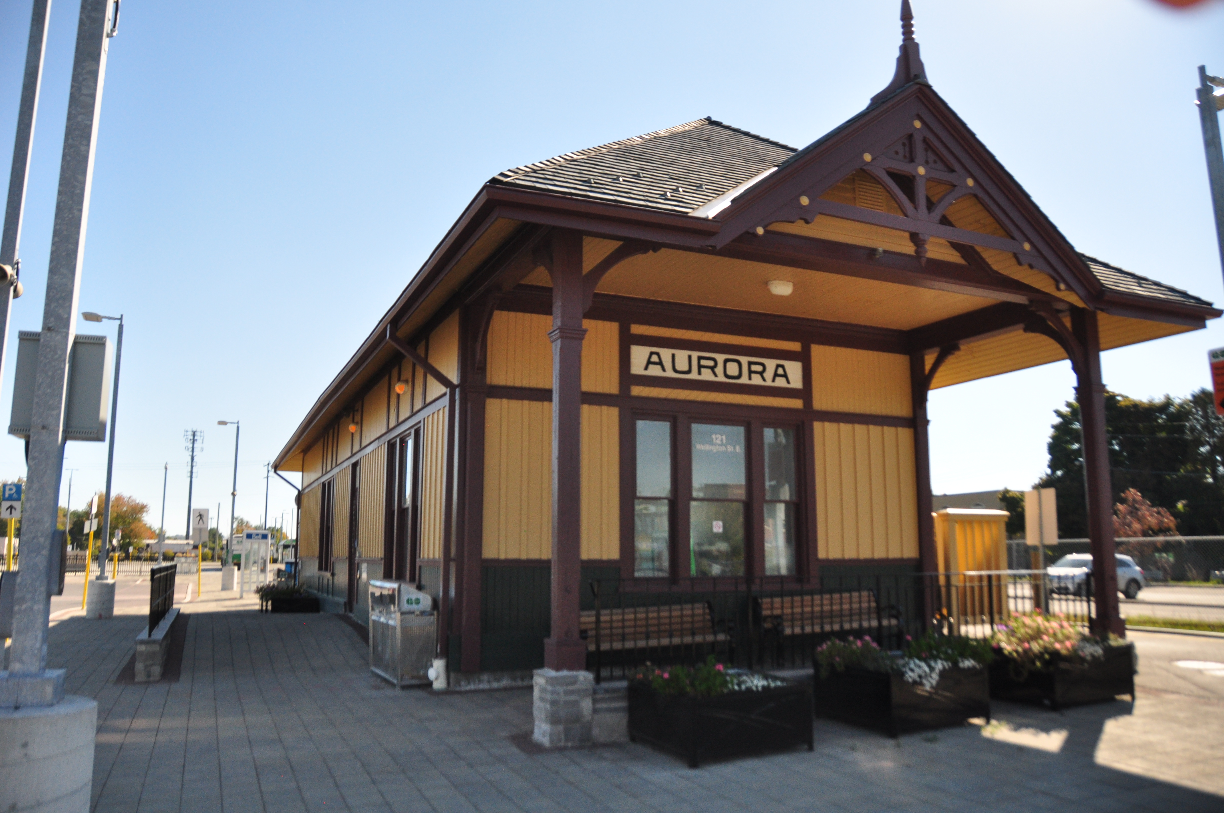 Grand Trunk Railway Station historic heritage building, 135 Wellington St., Aurora, Ontario, now Go Train Station